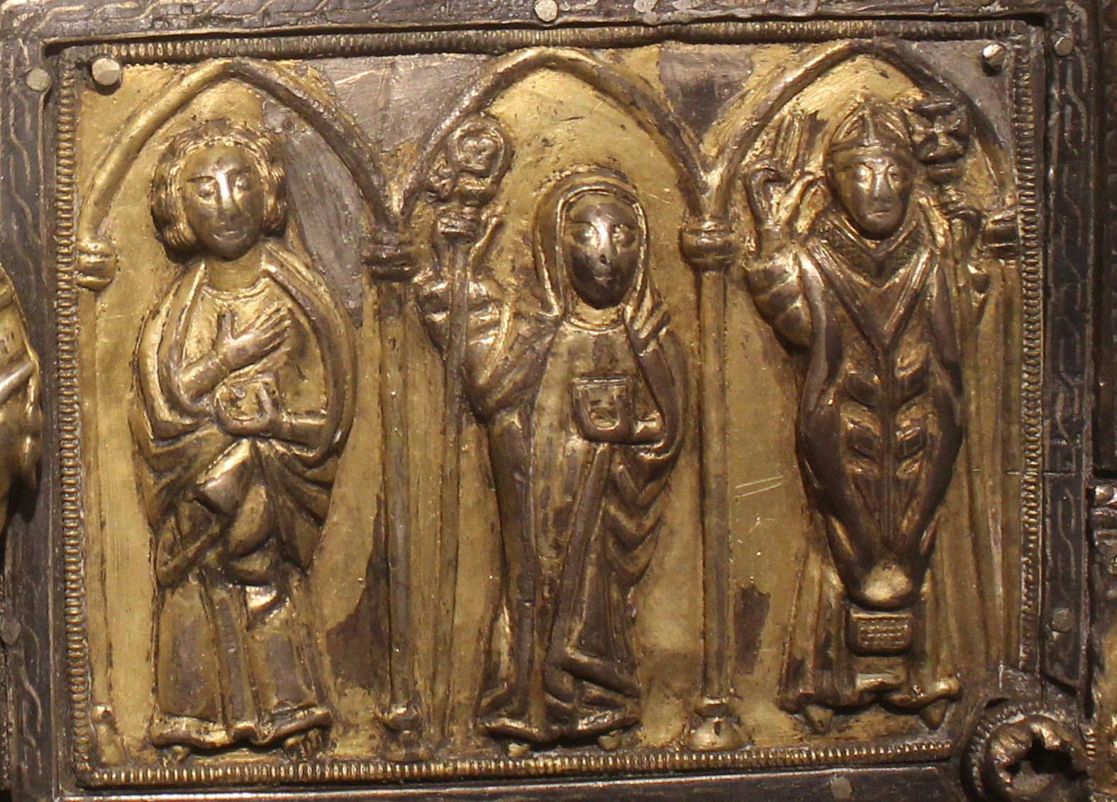 The Domhnach Airgid, or Silver Church, a book shrine (Cumdach) which was believed to have originally contained relics associated with St Patrick and which was remodelled in about 1350.